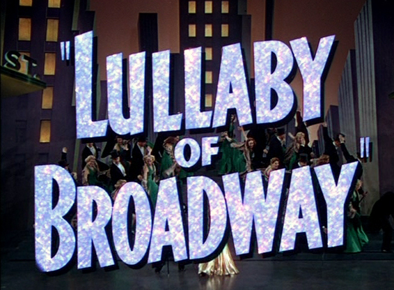 Cropped screenshot of the film title from the trailer for the film Lullaby of Broadway